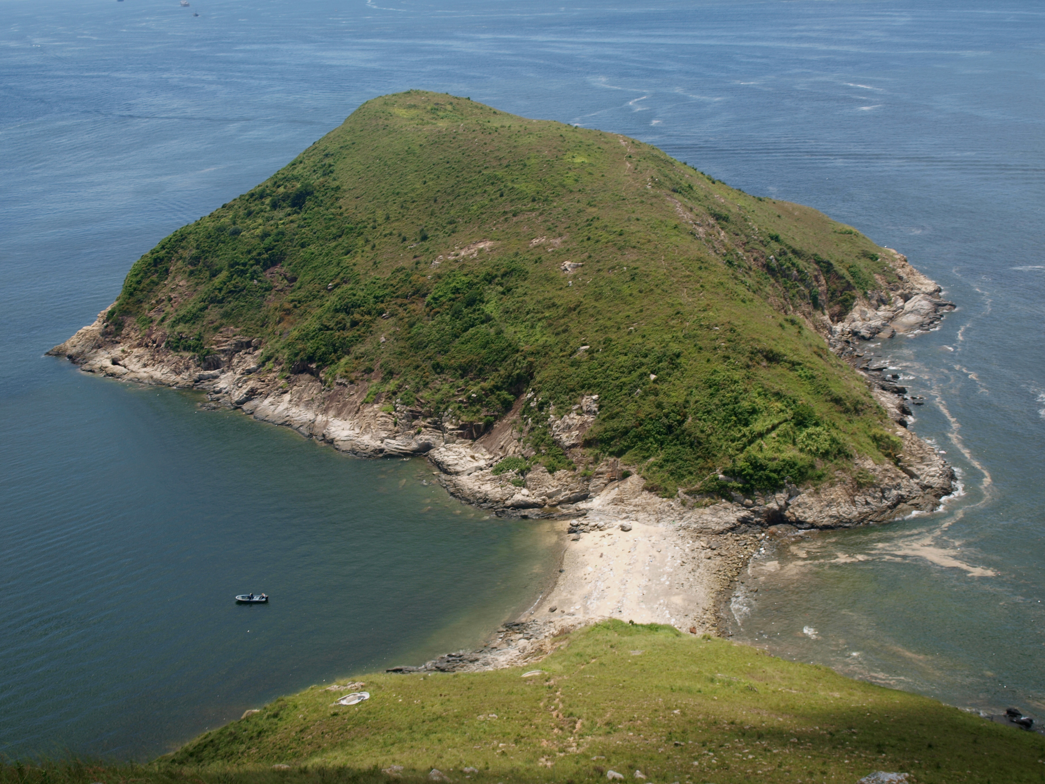 The island of Ap Lei Pai in southern Hong Kong, near the Ap Lei Chau Island and Aberdeen.